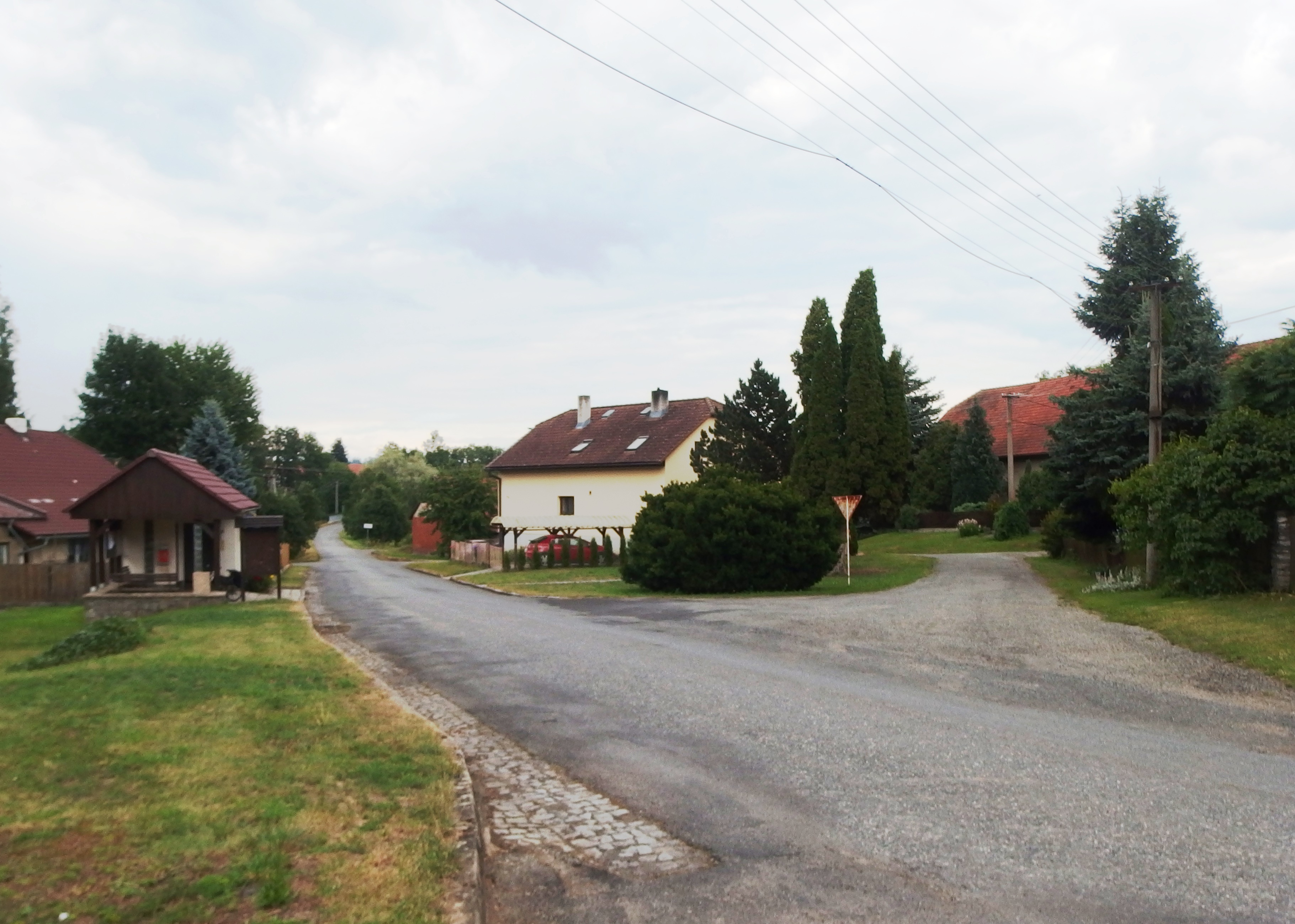 Rozsochy, Žďár nad Sázavou District, Czechia, part Albrechtice.